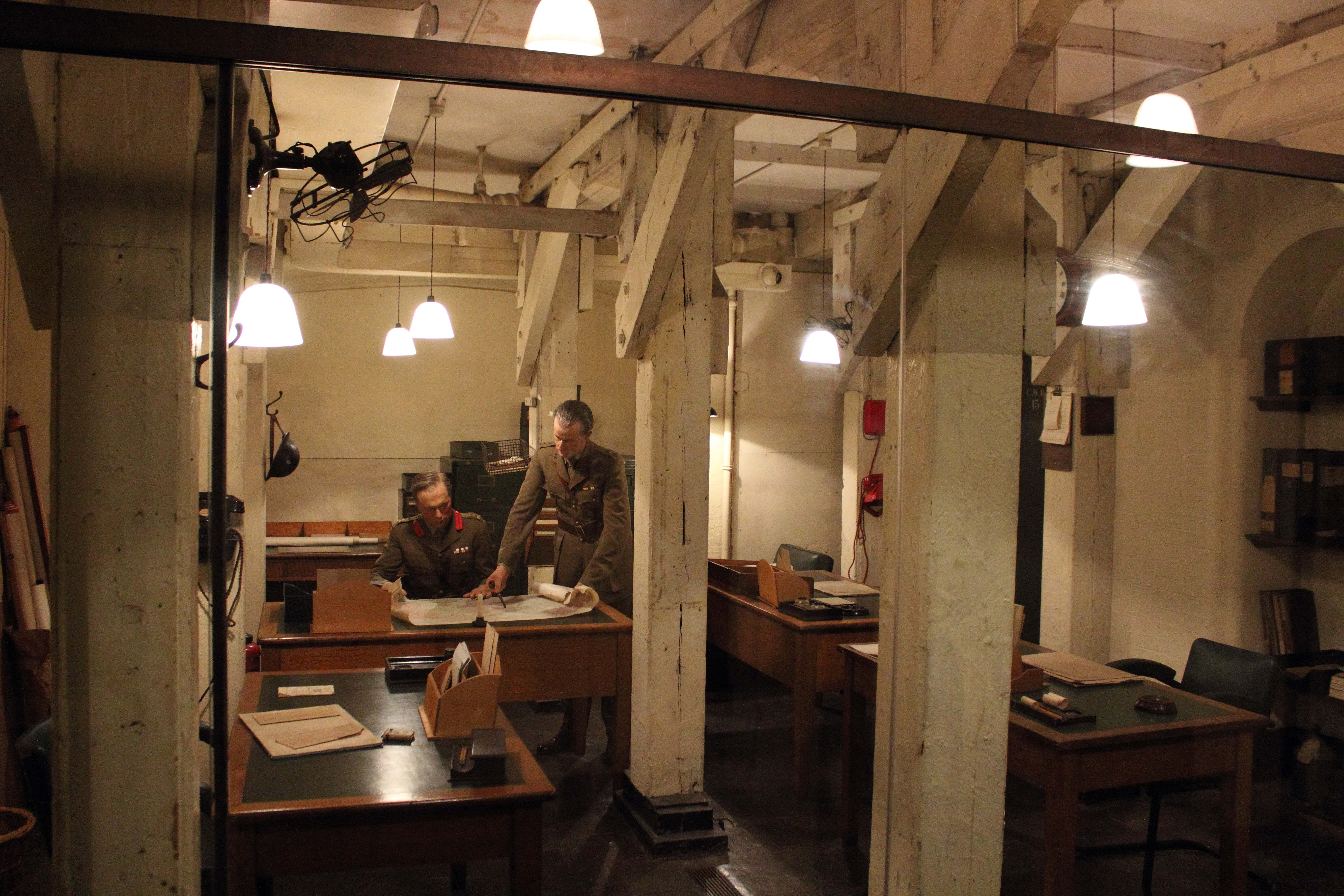 CWR: Office rooms